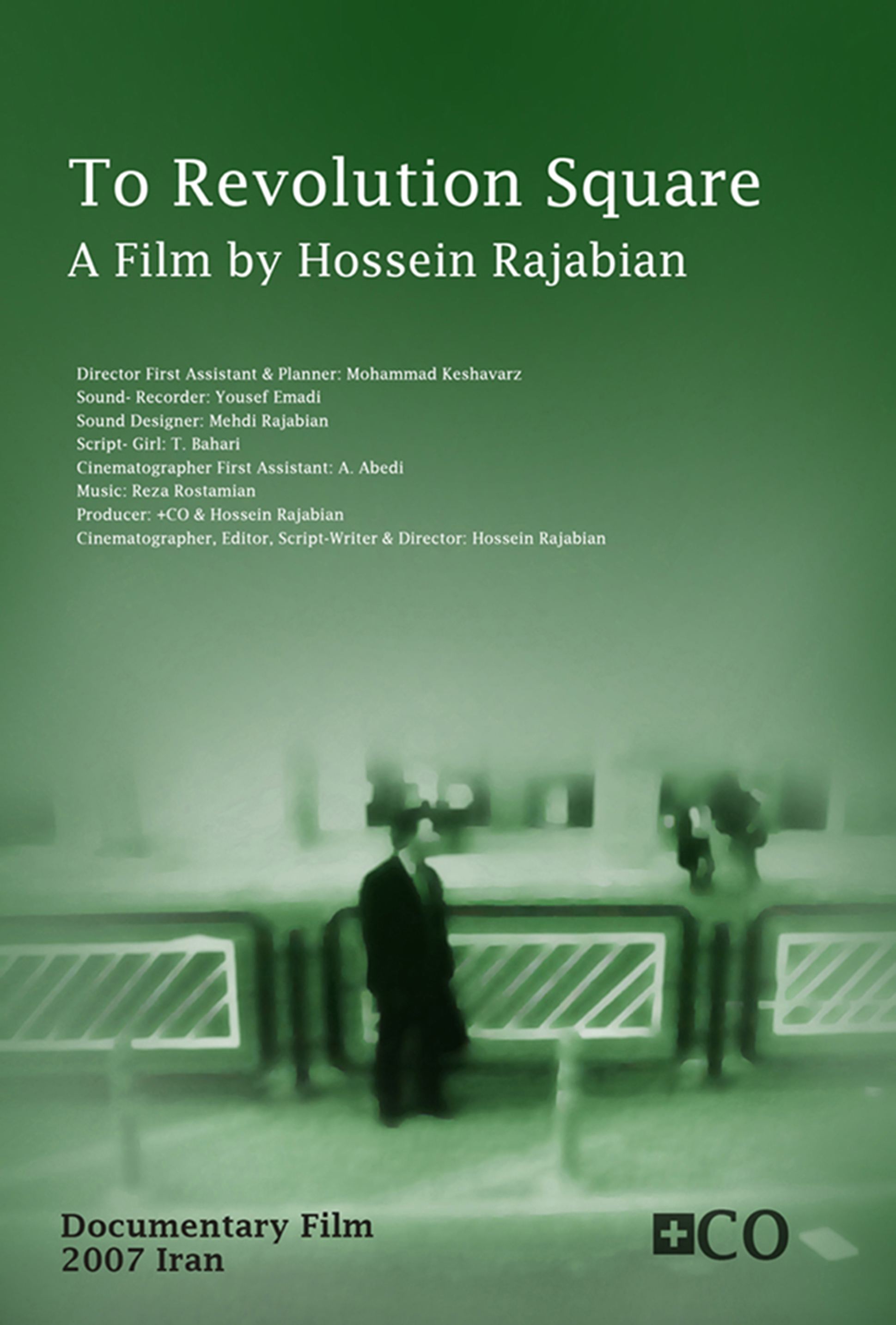 To Revolution Square a film by hossein rajabian حسین رجبیان فیلم مستند